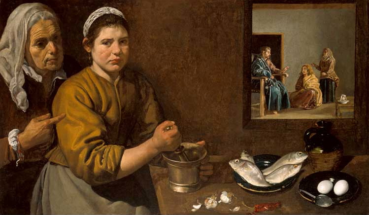 Painting after 1969 restoration